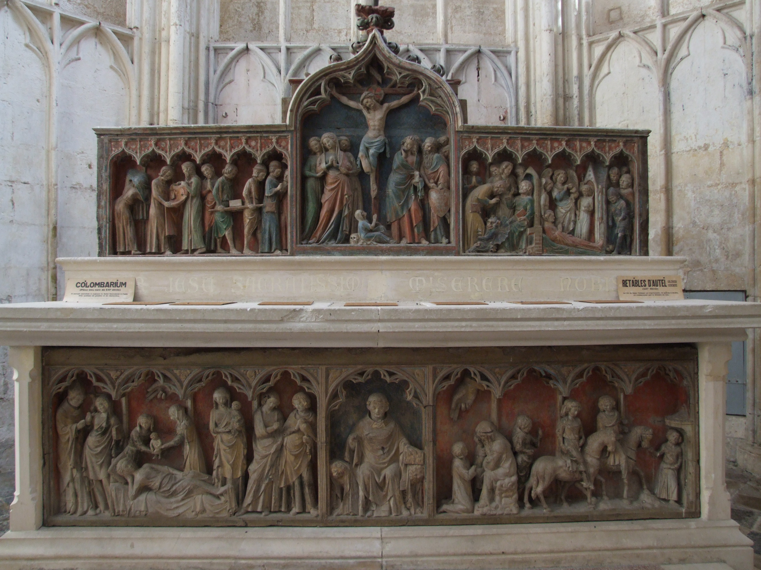 Saint-Thibault Church, Saint-Thibault , Burgundy, FRANCE